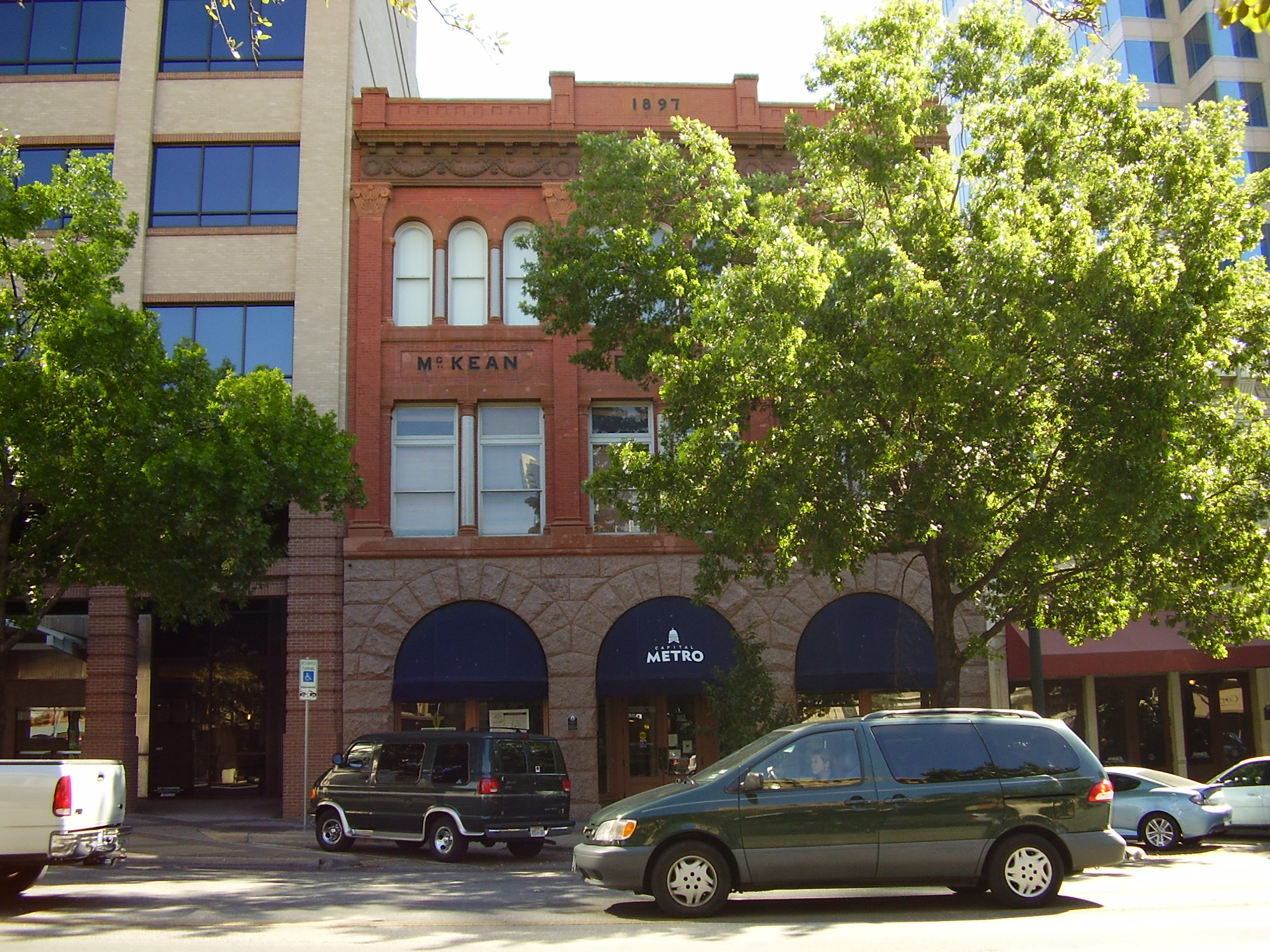 Capital Metro ticketing office in Downtown Austin